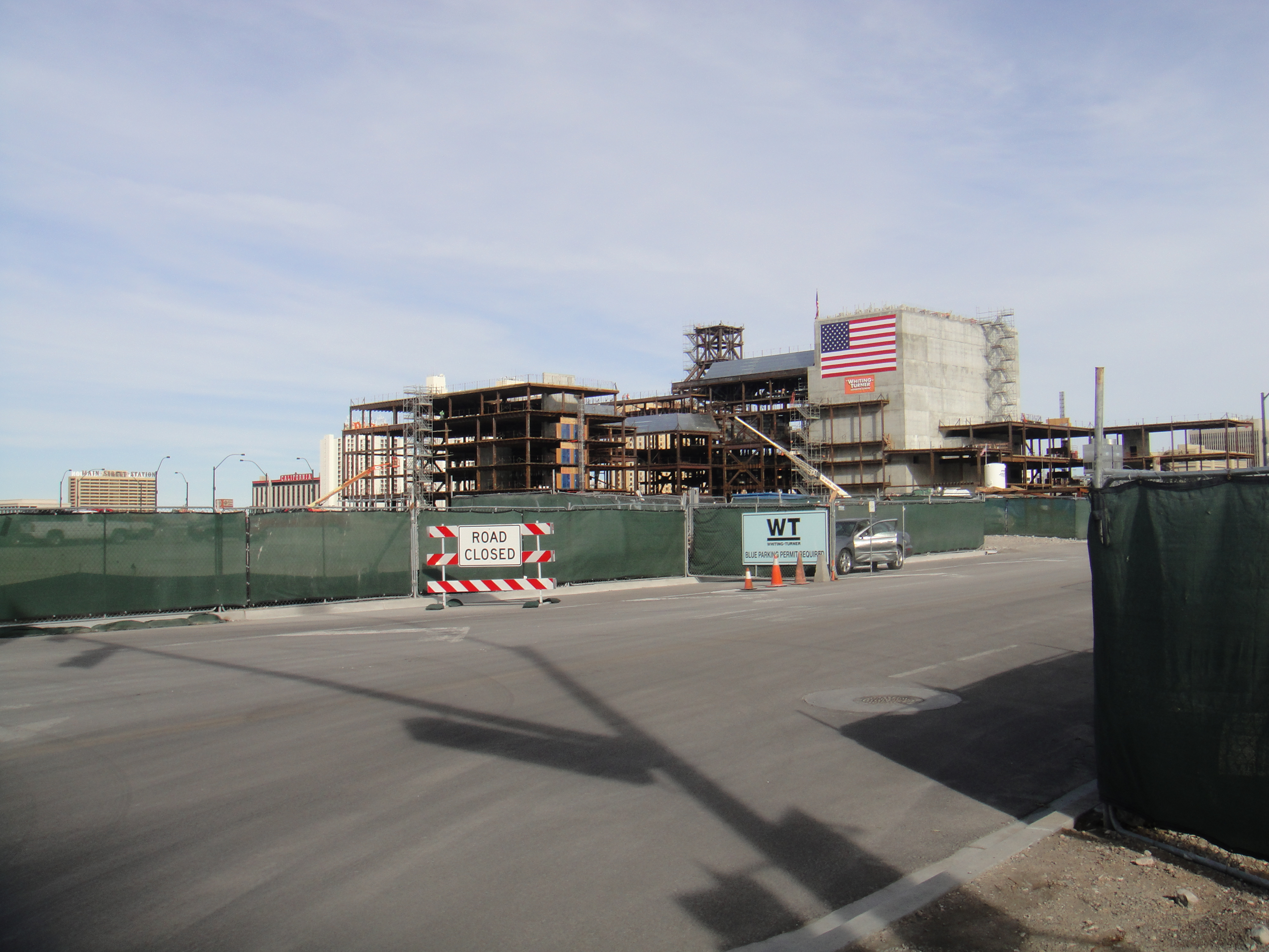 Photo of the Smith Center for the Performing Arts under construction in Las Vegas, Nevada in March 2010